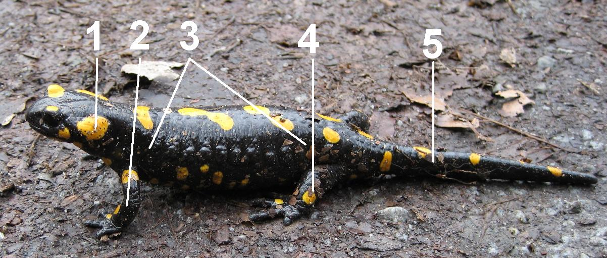 Fire Salamander